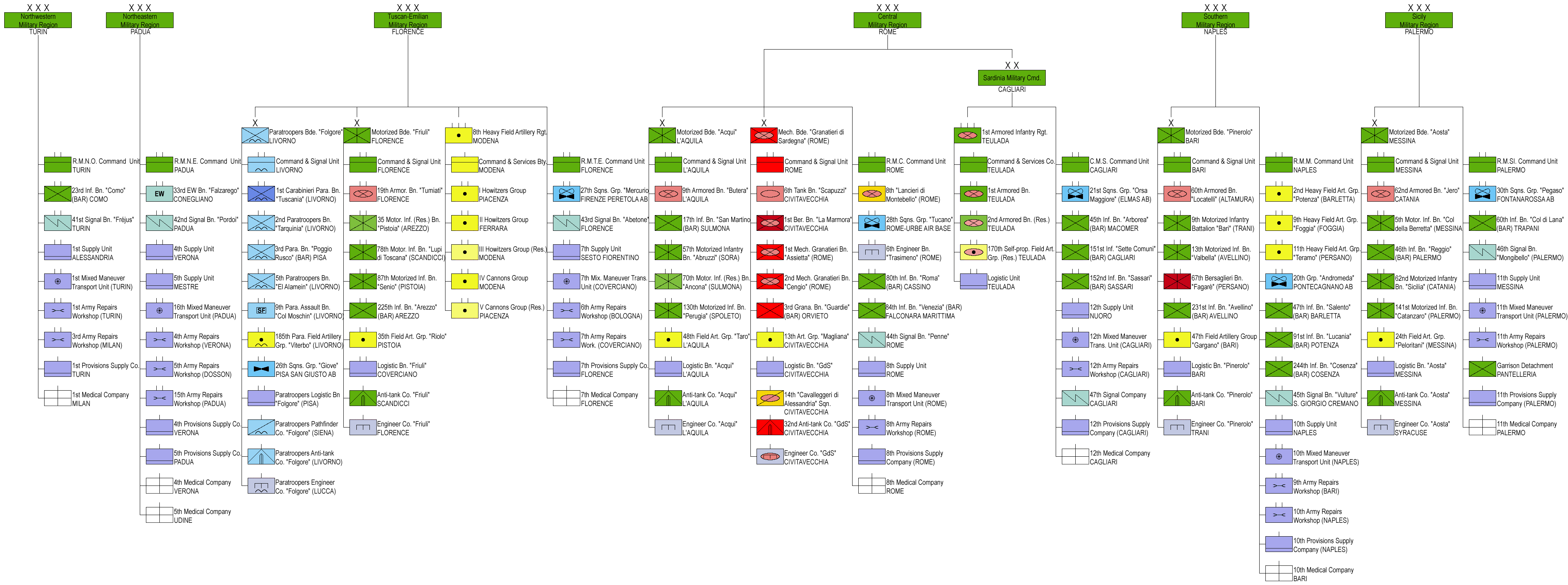 Structure of the Italian Army's Military Regions in 1977